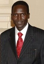 Paul Tergat of the World Food Program.